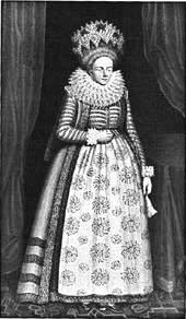 Portrait of Elizabeth Cary, Viscountess Falkland.